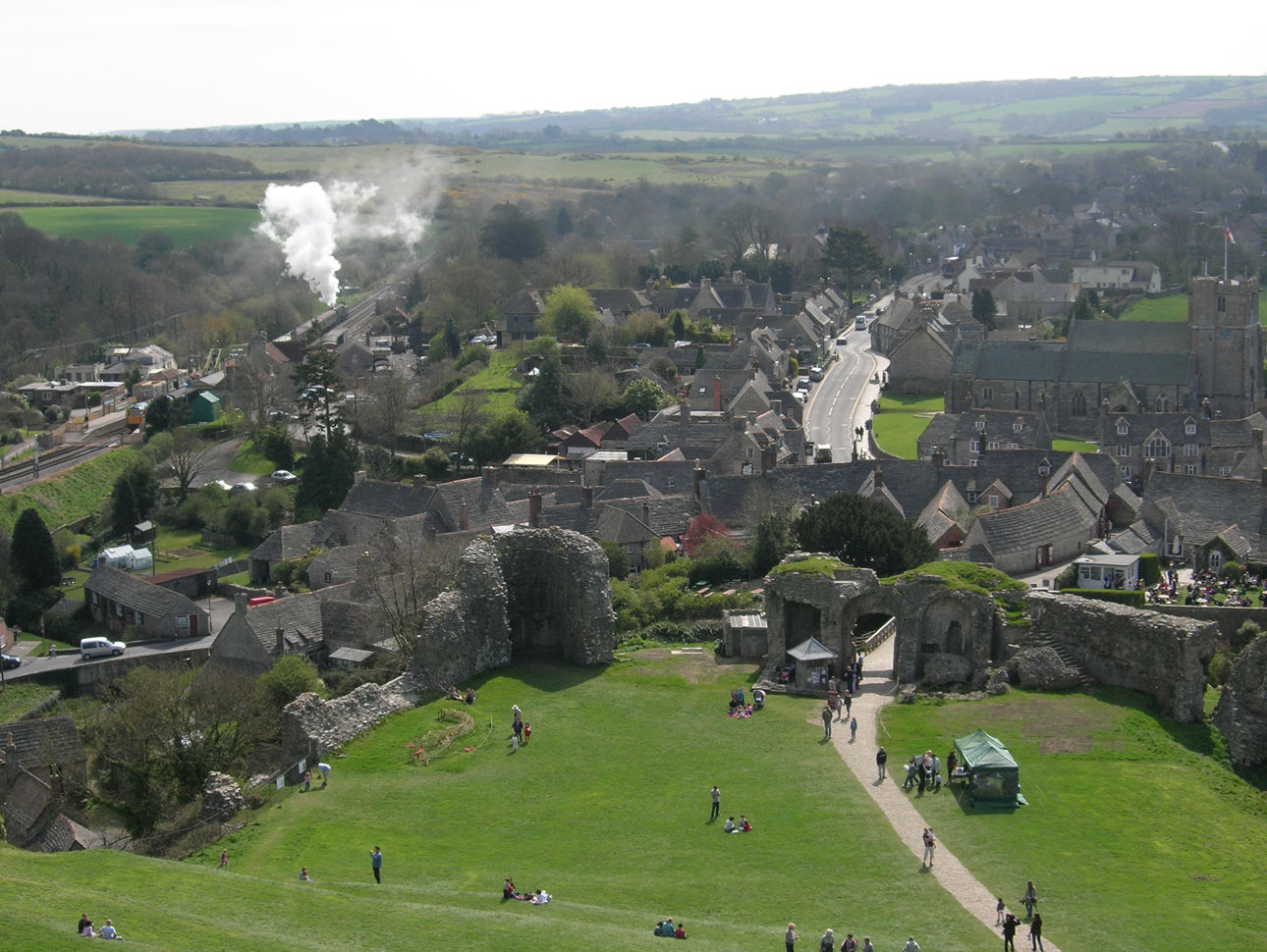 Corfe Castle village, as seen from Corfe Castle itself. The station is on the left, with steam engine in the distance.